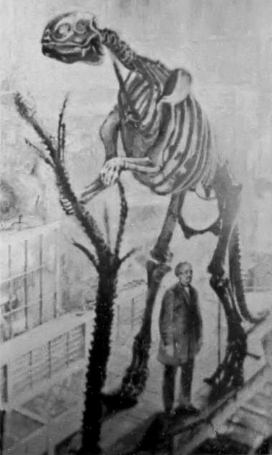 Mounted Hadrosaurus skeleton (by Benjamin Waterhouse Hawkins, who stands beside it), first ever mounted dinosaur.[1]